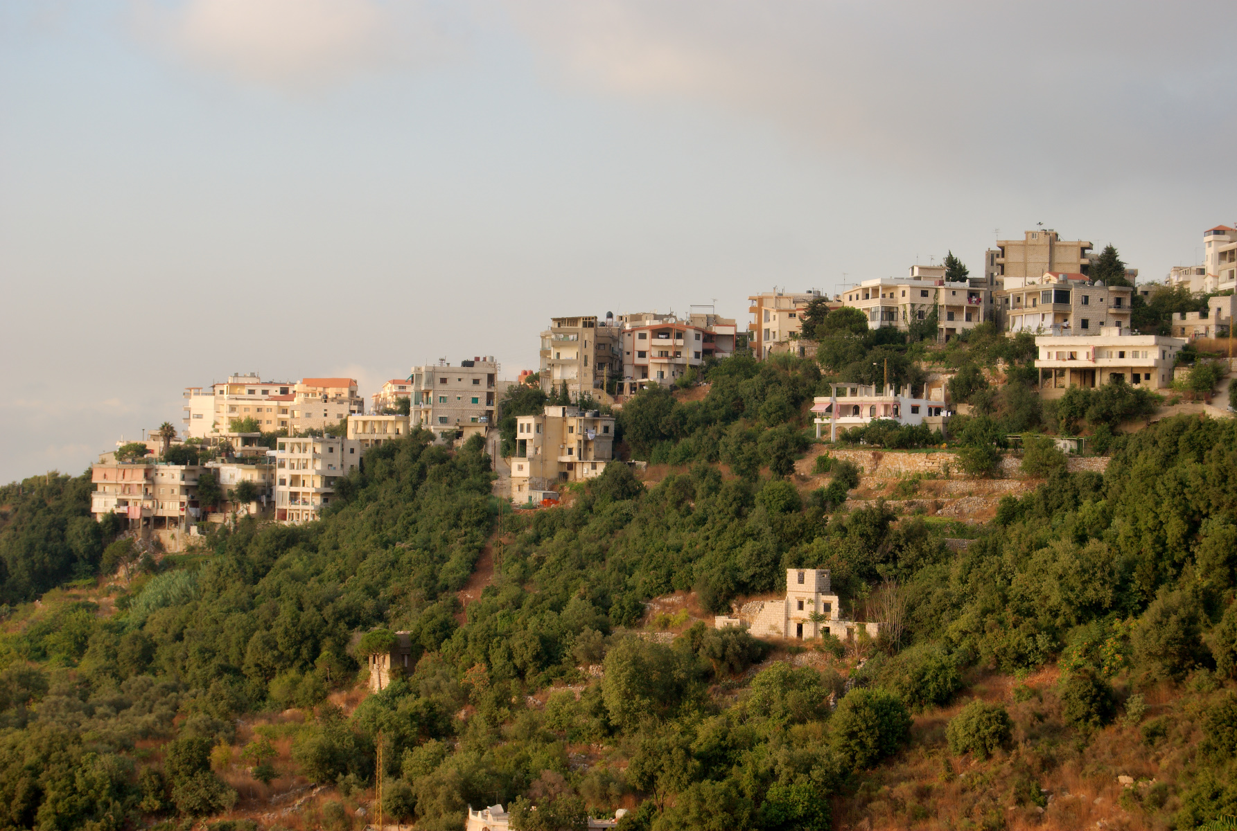 the City of Aley in the mountains overlooking Beirut, Lebanon. View of a small side (West) from the road to Kabr Shmoun.